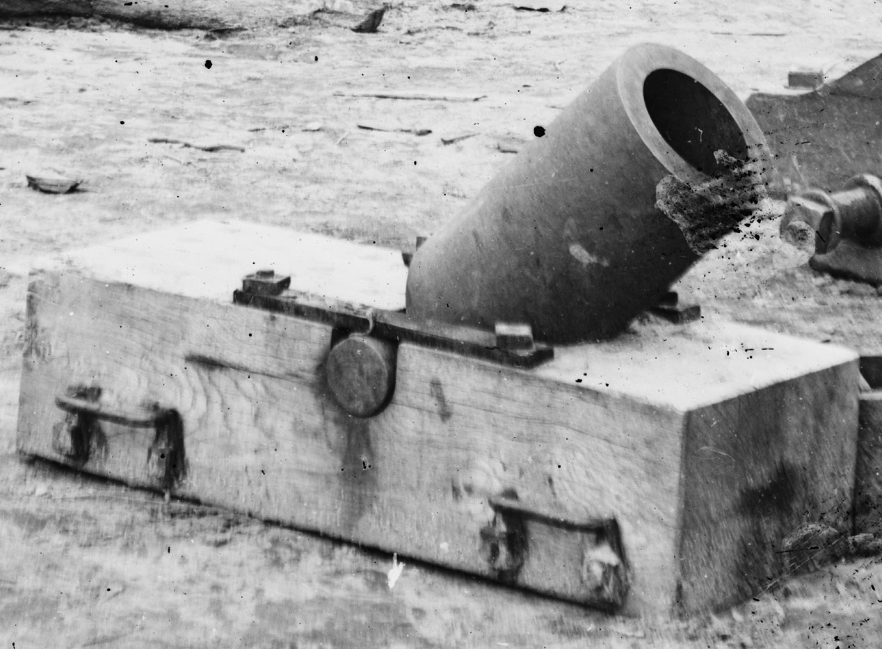 Detail of photograph Broadway Landing, Appomattox River, Virginia. Ordnance showing Confederate iron 24-pounder Coehorn mortar.